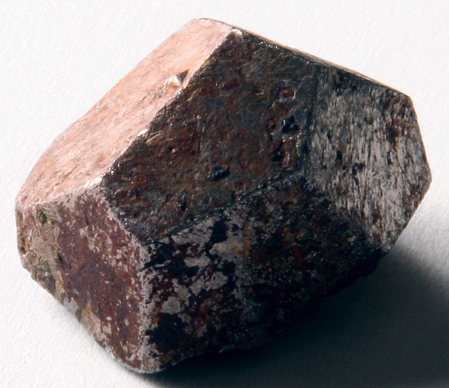 Cobaltite, Riddarhyttan, Sweden